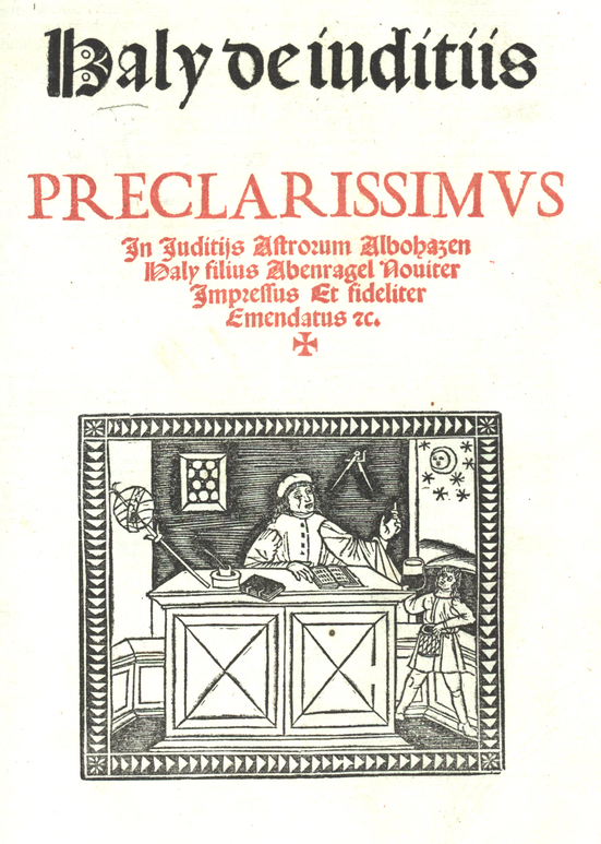 "Complete Book on the Judgment of the Stars" Ibn Abī al-Rijāl, ʻAlī, 1015 or 16-1062 or 3 1523